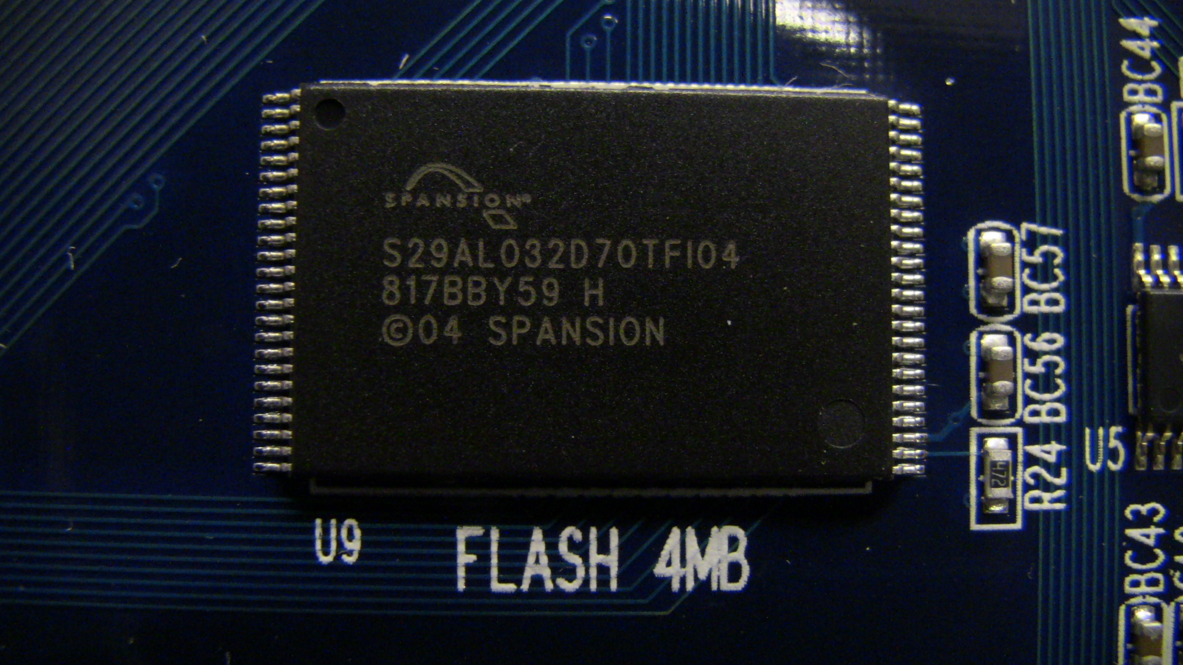 Spansion Flash 4 MB, on an Altera terasic DE1 Prototyping Board